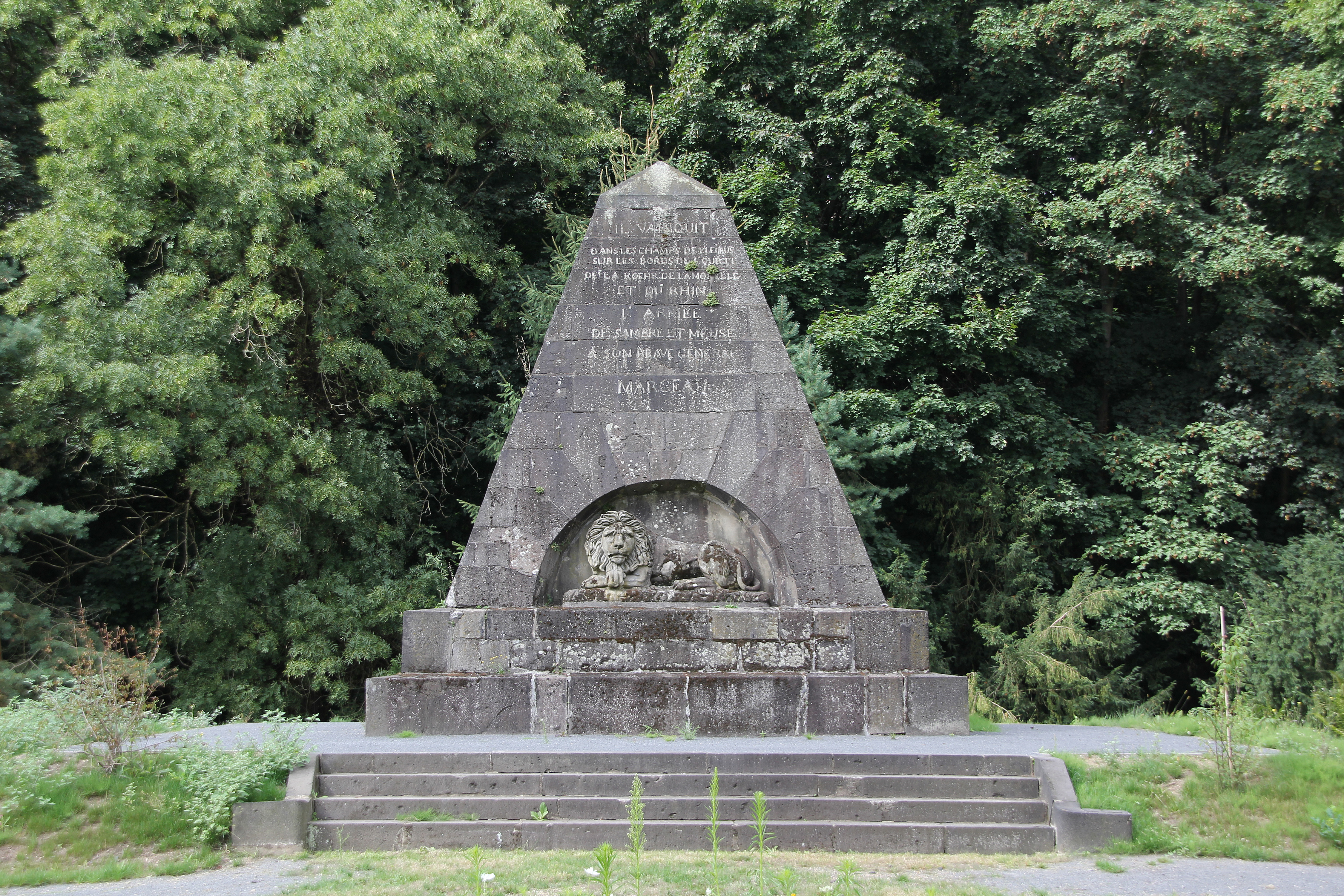 French military cemetary in Koblenz